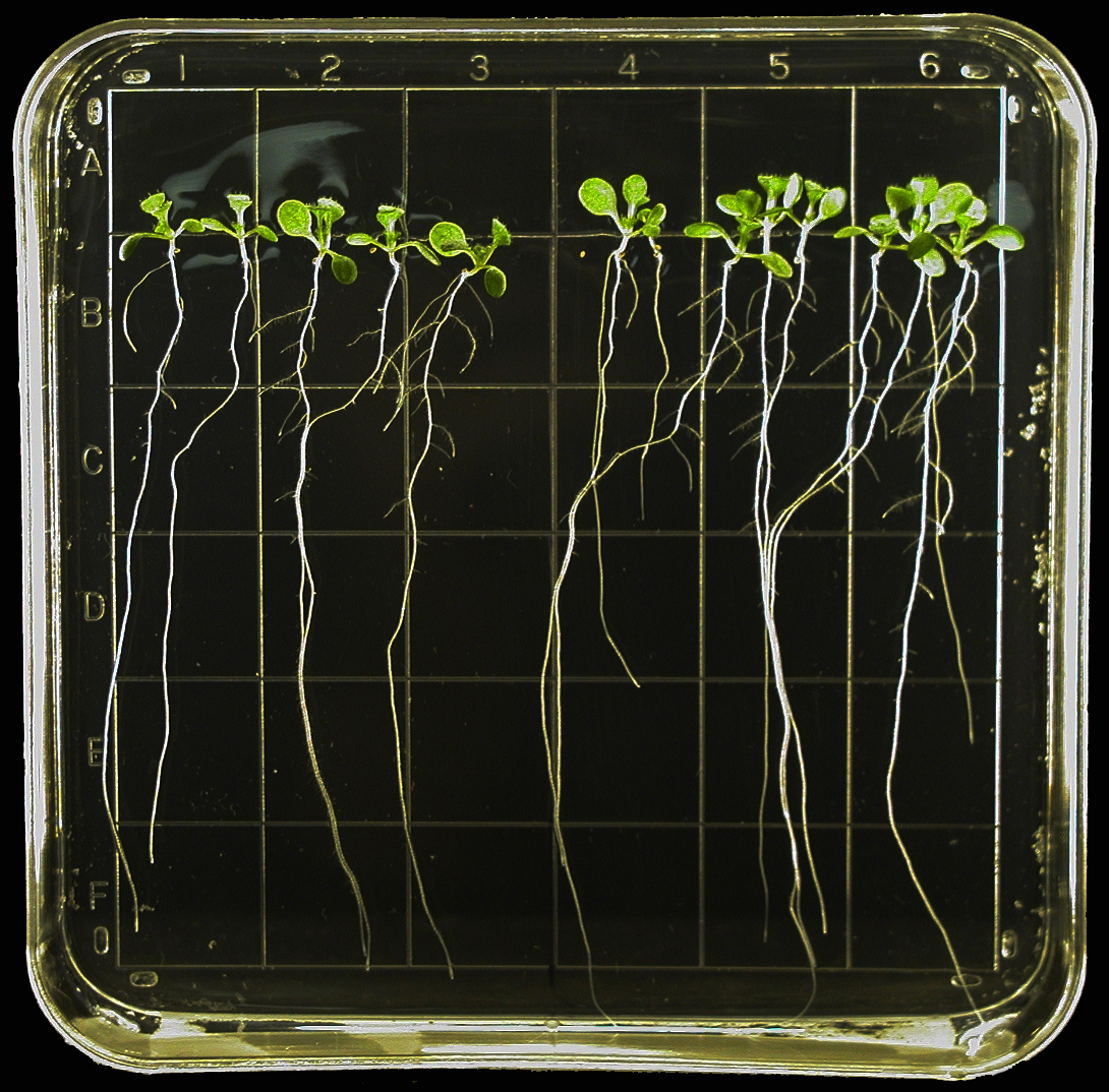 On the space station, thale cress is grown within transparent gel plates so scientists can observe changes in morphology.